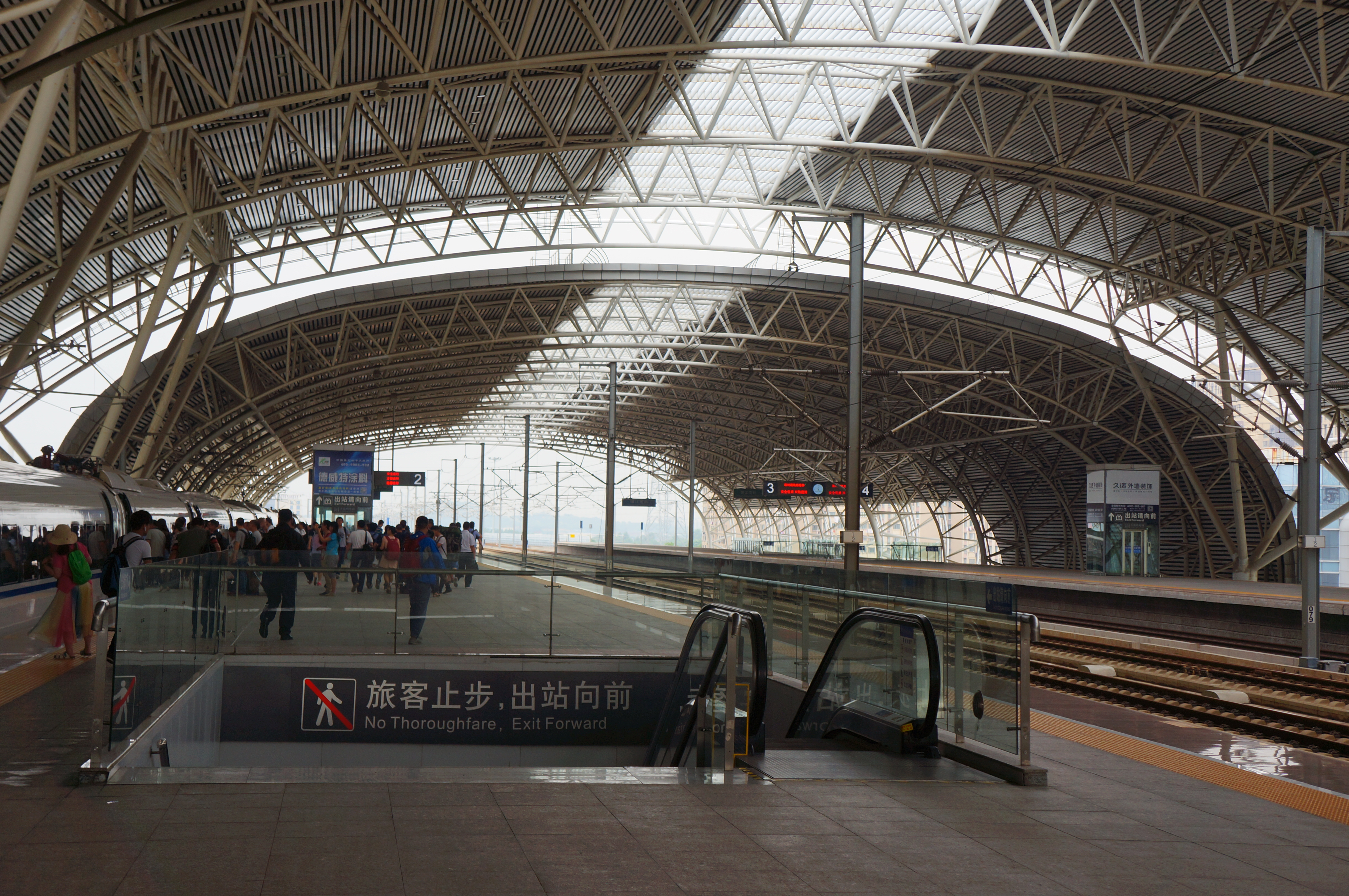 201606 Platform of Zhenjiangnan Station Beijing Direction